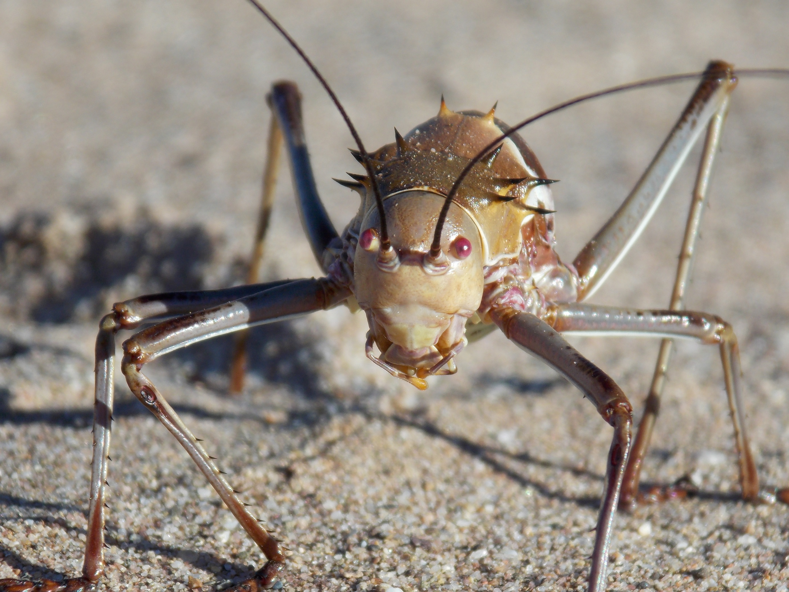 Close-up of an Acanthoplus discoidalis species found in Southern Namibia